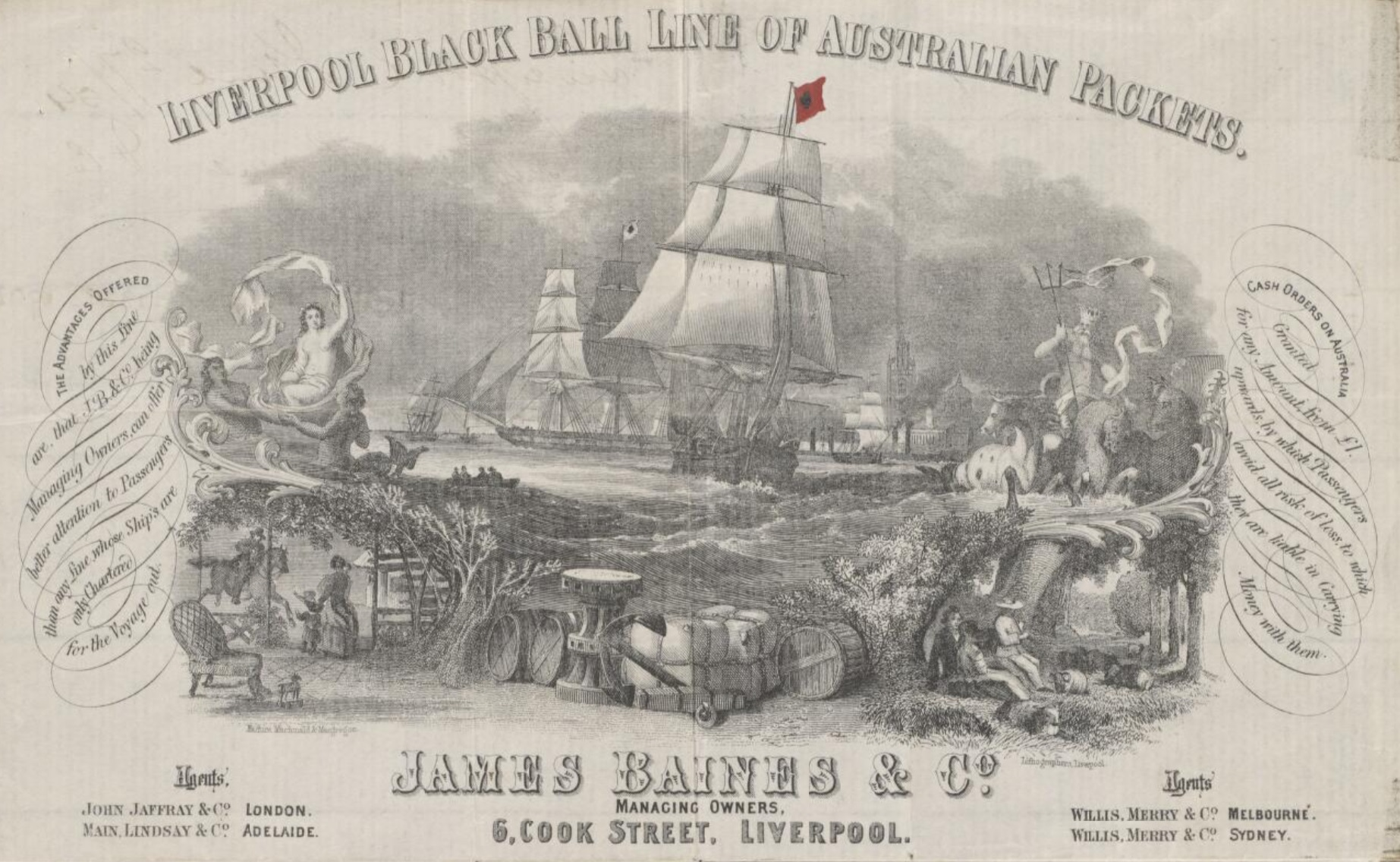 Letterhead for James Baines & Co., Liverpool Black Line of Australian of Australian Packets, Maclure, Macdonald & Macgregor, lithographers